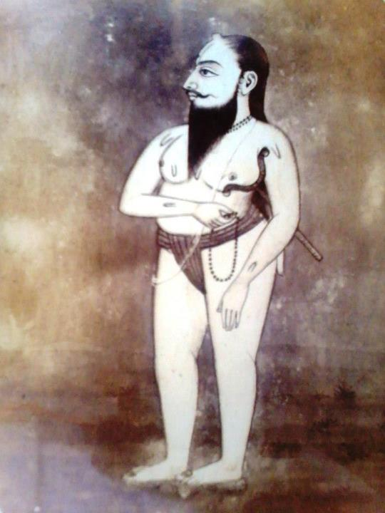 समर्थ रामदास स्वामींचे अस्सल दुर्मिळ छायाचित्र लाड कारंजे मठामध्ये आहे.